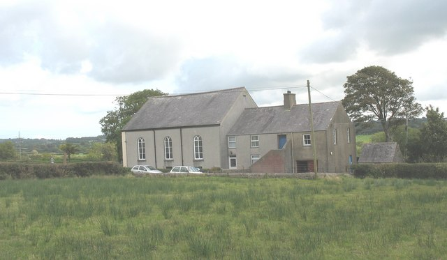 Capel a Ty Capel Ebenezer, Rhosmeirch, near to Rhosmeirch, Isle of Anglesey/Sir Ynys Mon, Great Britain. This Independent chapel has an attached chapel house where the caretaker lives. The image was taken from the path leading across sheep pastures to the chapel from the village of Rhosmeirch SH4677 : Capel Ebenezer, Rhosmeirch